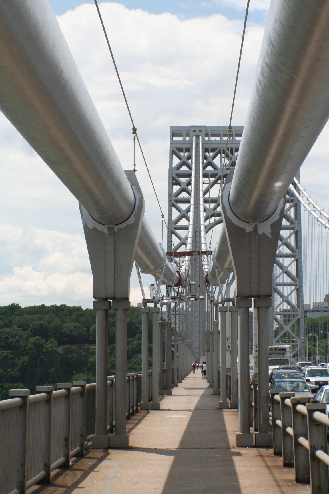 View from pedestrian passage on the George Washington Bridge toward New Jersey